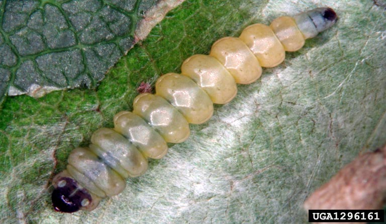 larva of Tischeria angusticollella from Hungary